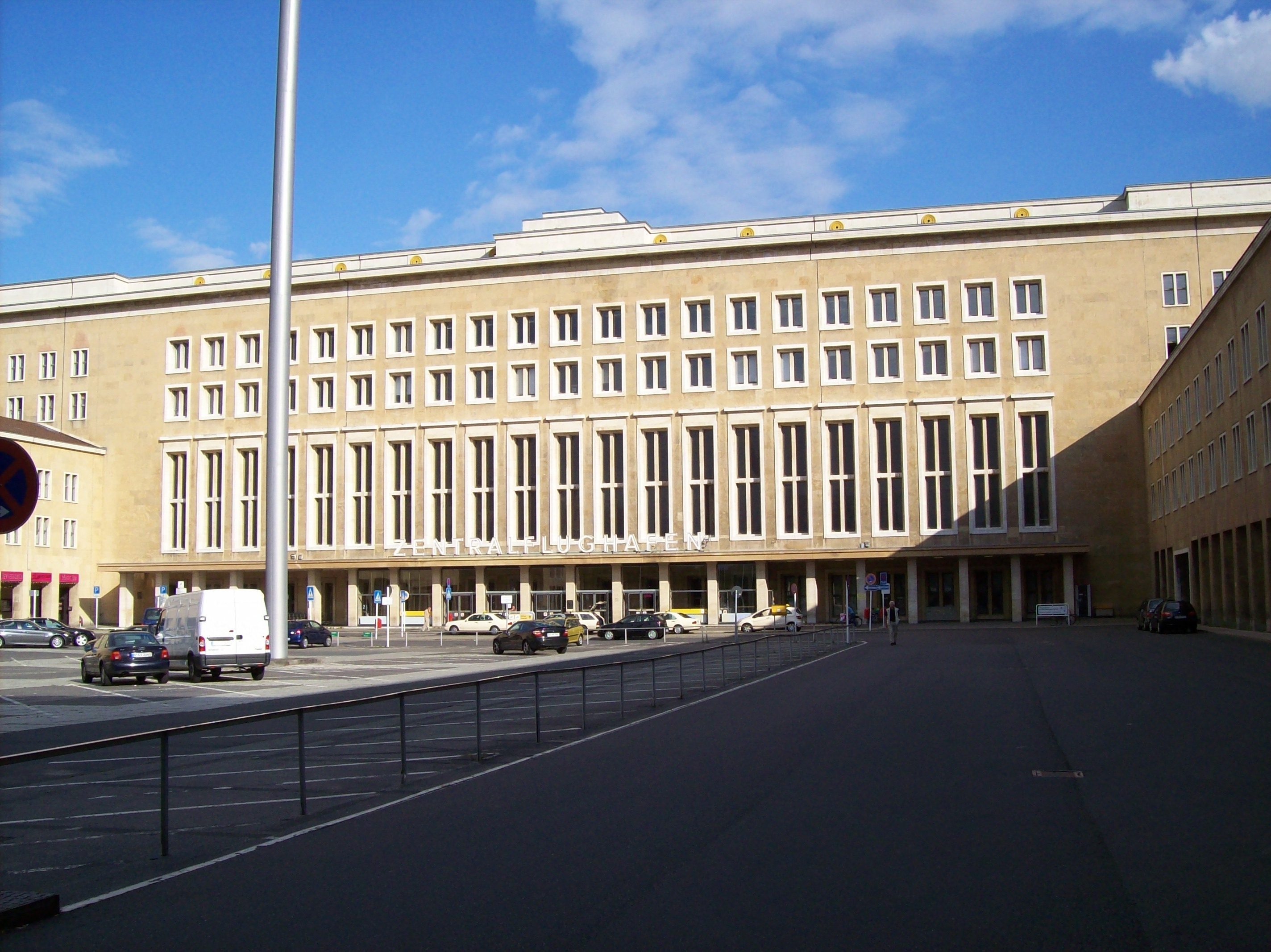 Berlin Tempelhof Airport in 2007